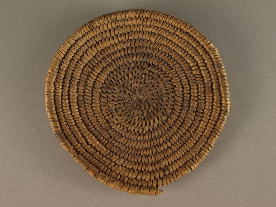 Basketmaker II basket specifimen from AD 1 to 700 from the Zion National park